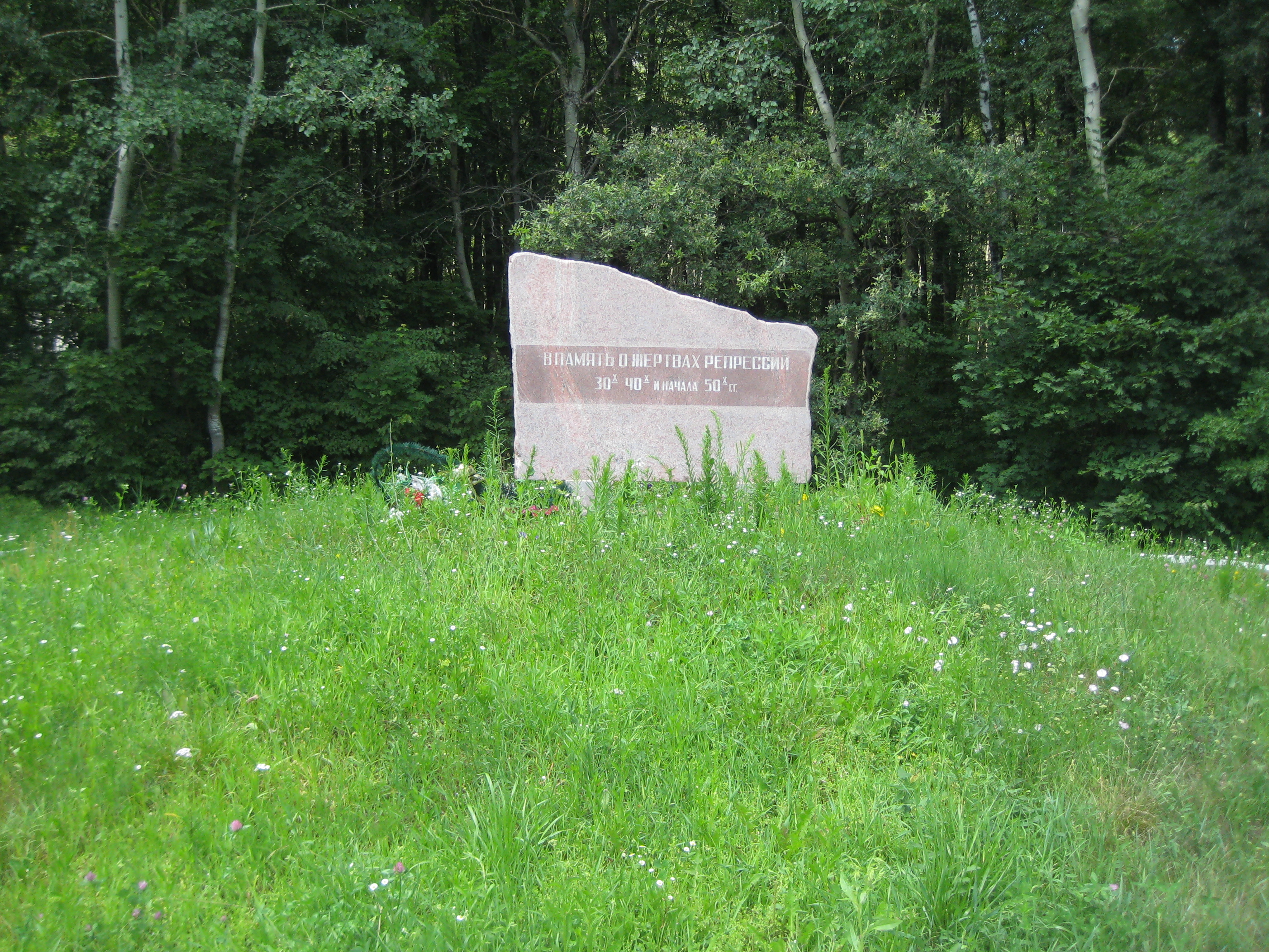 Monument to victims of political repressions in Medvedevsky forest near Oryol, Russia